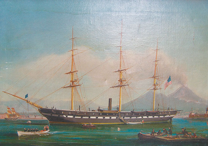 United States Navy gunboat USS Alliance.